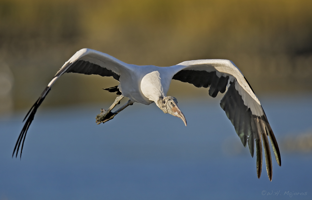 A wood stork flying